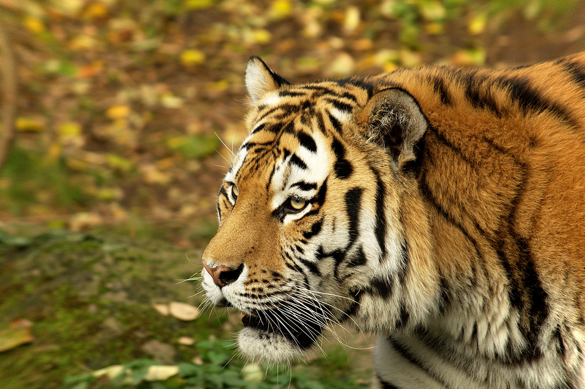 Male Panthera tigris altaica. Camera data Camera Canon EOS 1000D Lens Canon EF-S 55-250mm 1:4-5.6 IS Focal length 250 mm Aperture f/6.3 Exposure time 1/200 s Sensivity ISO 400